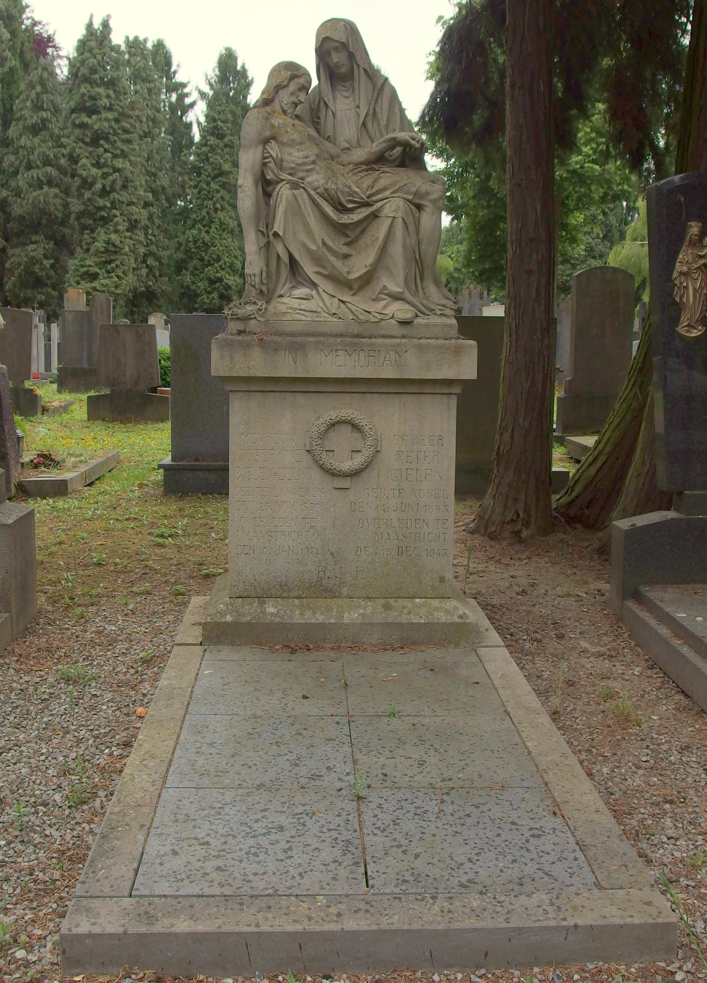 20140526 Algemene Begraafplaats Tongerseweg; Cemetery in Maastricht